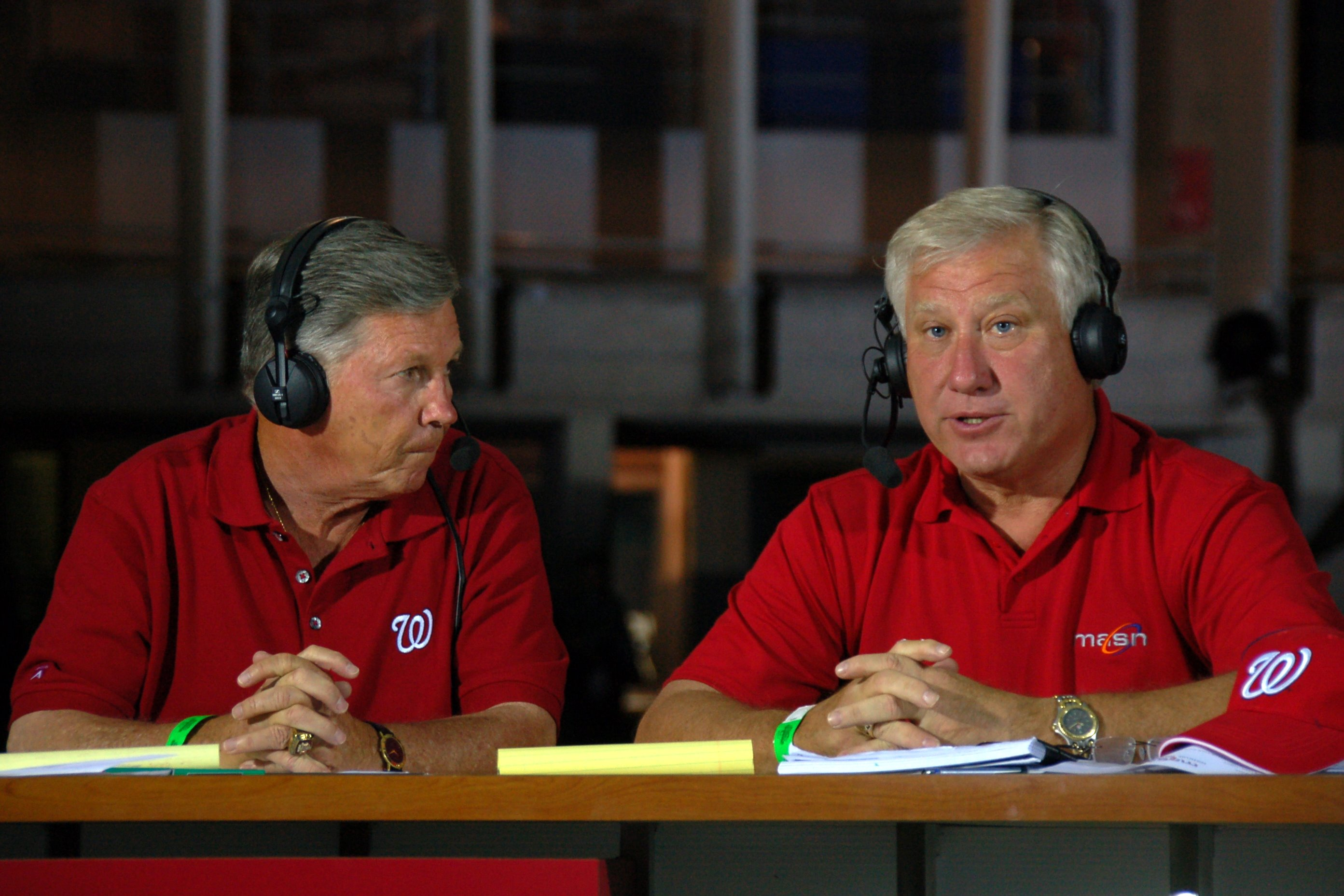 Source: Flickr - Nats Extra with Johnny Holliday & Ray Knight Author: Scott Ableman License: Permission is granted by the author Scott Ableman to use this photo on Wikipedia under a CC-2.5. Any other use requires permission from the author and a link back to the author's flickr page. Date taken: June 23, 2007 Date uploaded: August 6, 2007